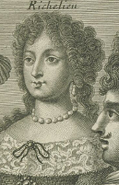 Portrait of Anne de Richelieu.